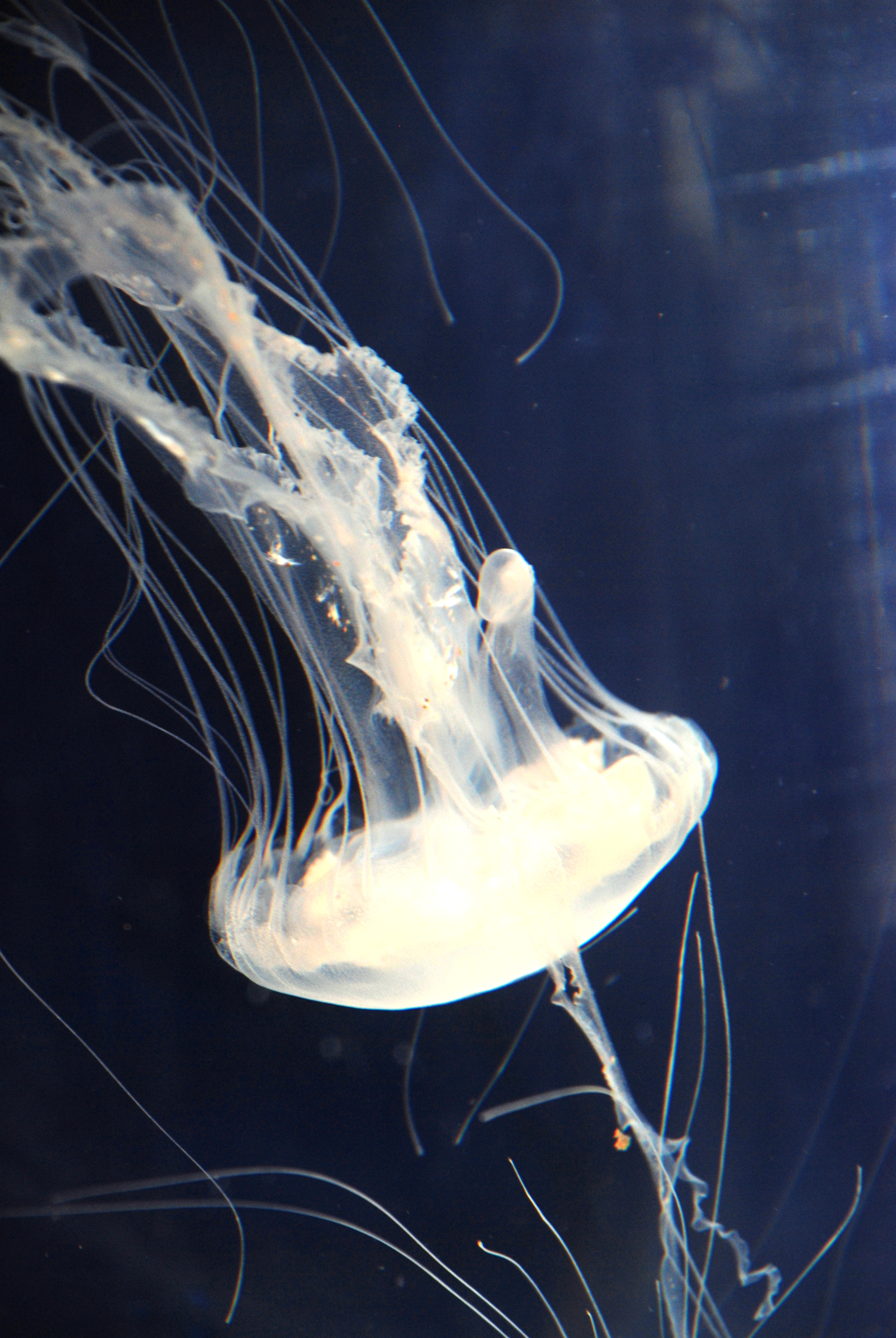 Invertebrates in Smithsonian National Zoological Park: Chrysaora quinquecirrha Sea nettle